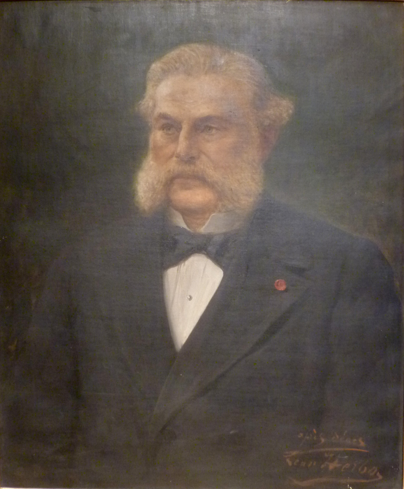 Charles Janssens, mayor (1882-1887) of Ostend, Belgium; by anonymous artist; city museum, Ostend